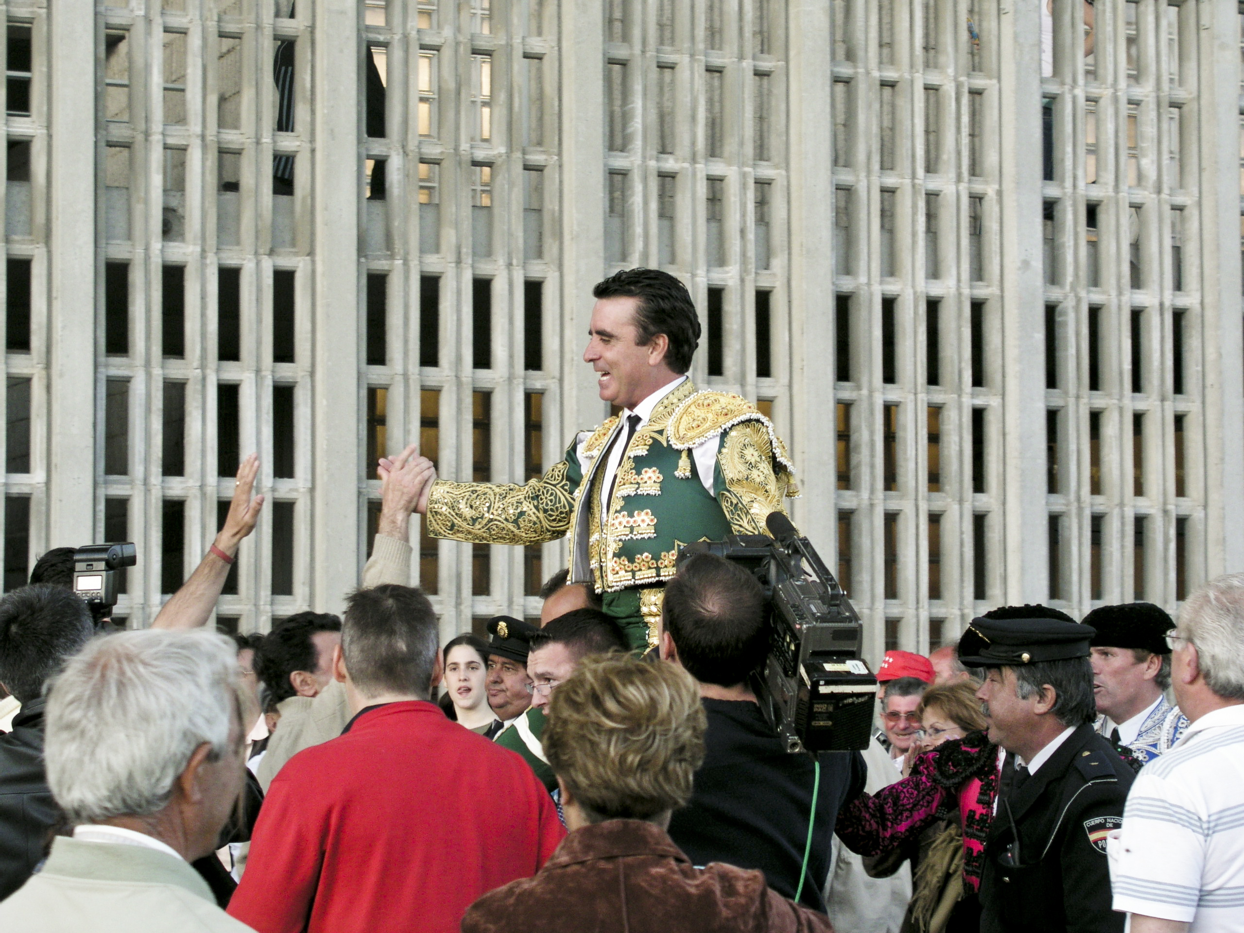 José Ortega Cano after bullfighting in Getafe, leaving on shoulders through the great portal.